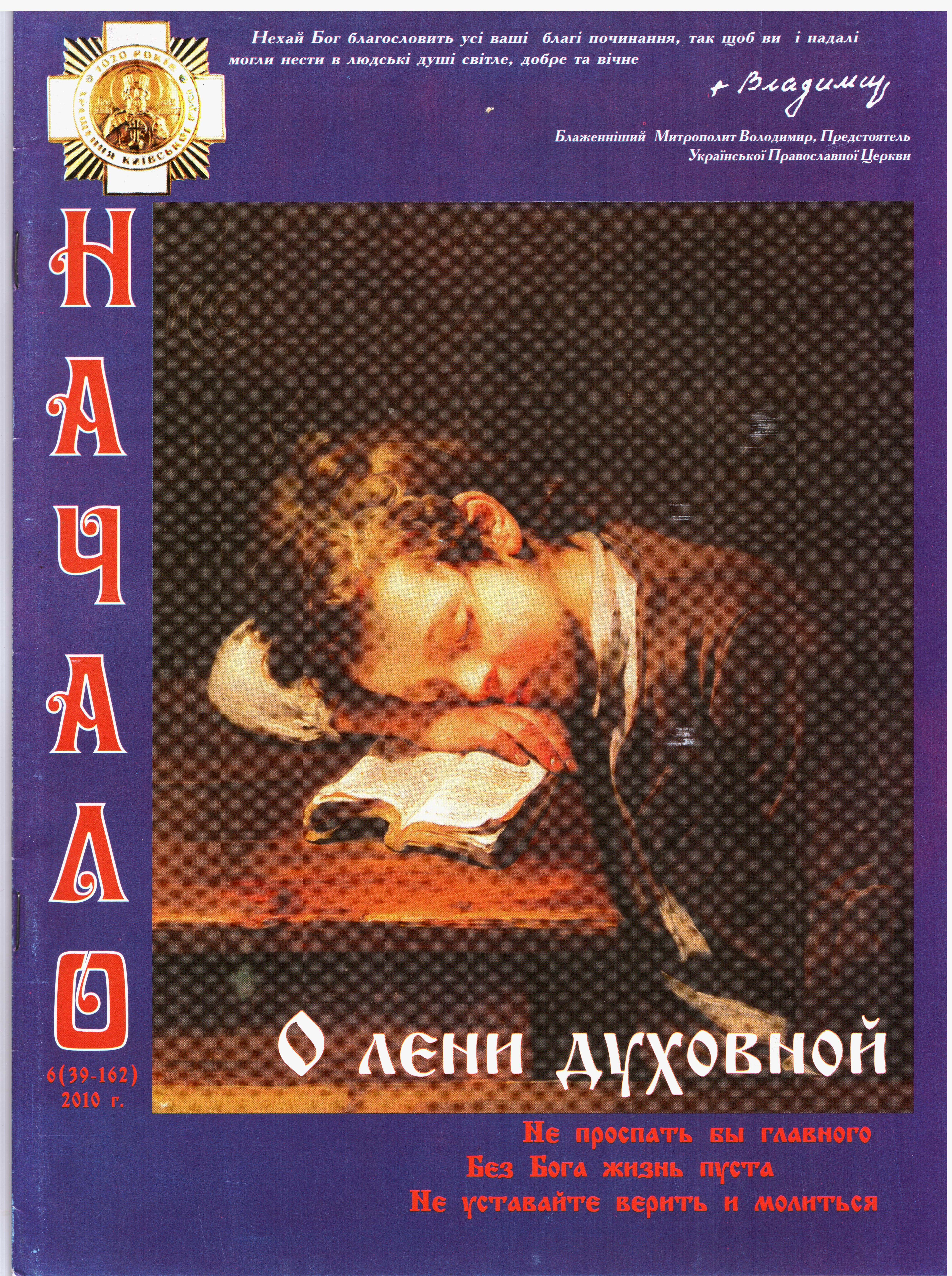 Jean-Baptiste Greuze. Oil on canvas. End 18 с.